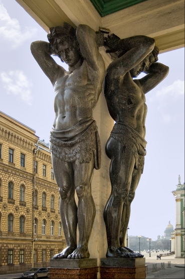 Neuermitage St. Petersburg